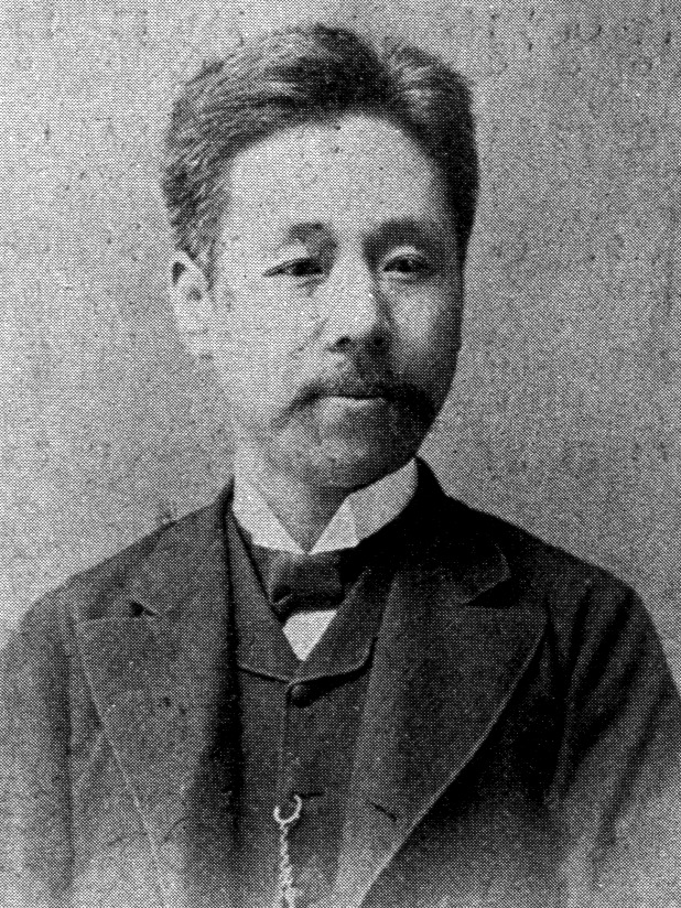 Hirayama Shigenobu, Chief of the Legislative Bureau